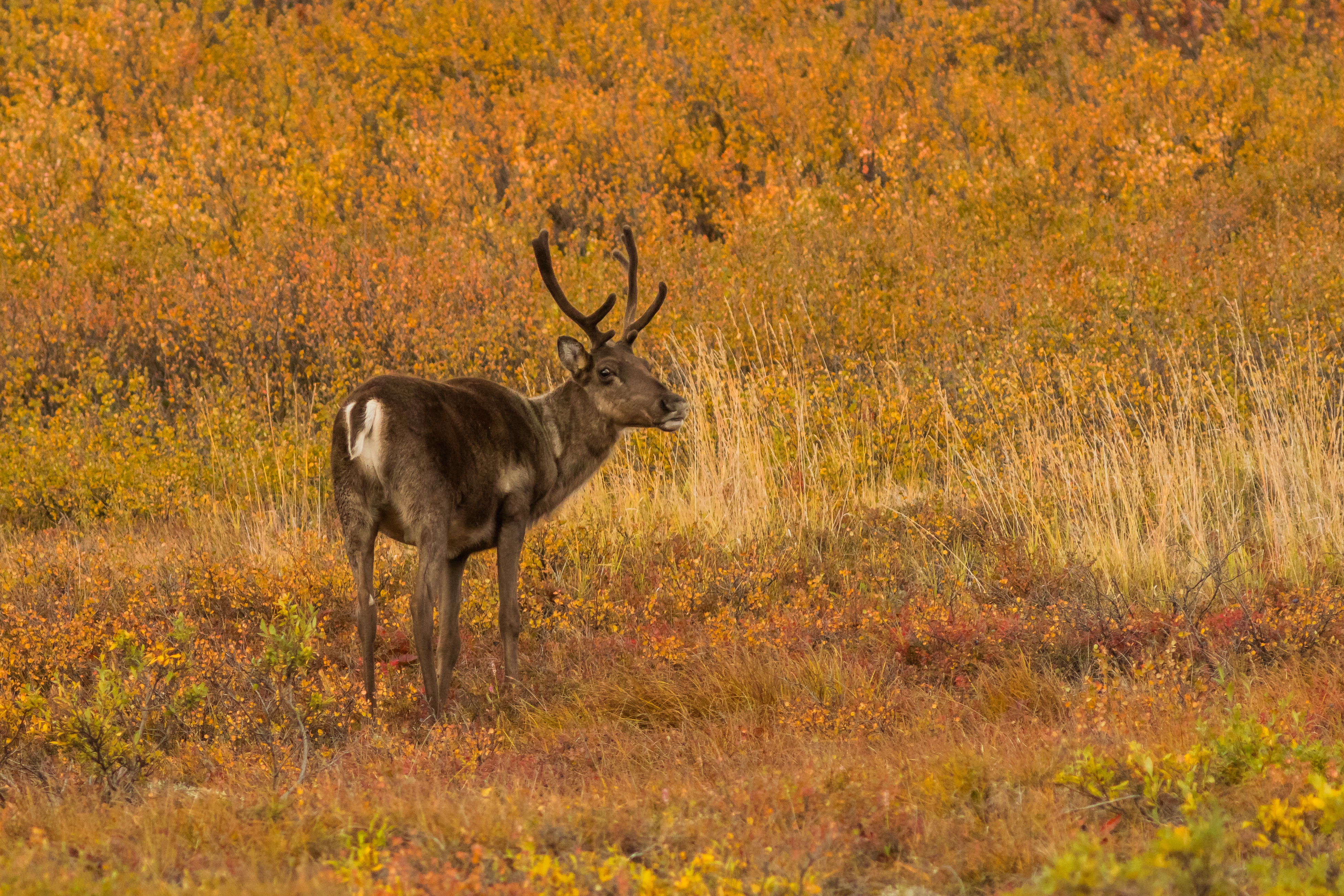 Reindeer (Rangifer tarandus), Denali National Park, Alaska, United States